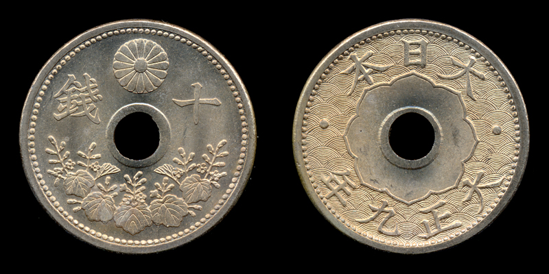 10sen-T9